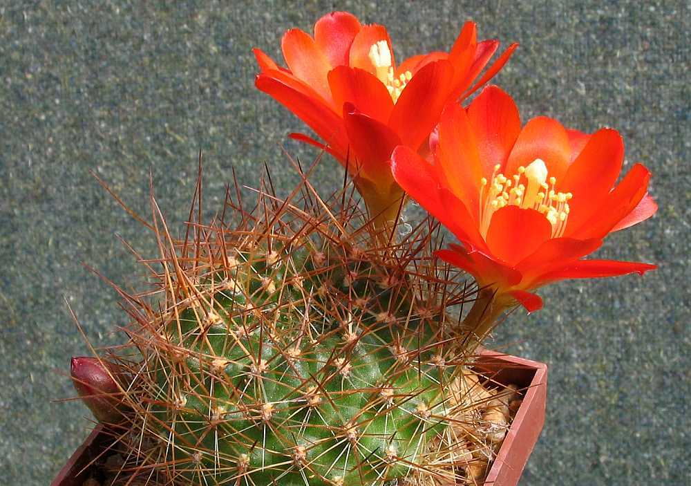 Rebutia deminuta (Rebutia kupperianavar. kupperiana) - cultivated plant (seed marked SE80) from own collection.